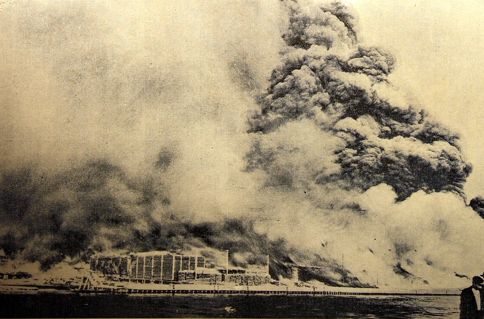 The fire destroyed the tar barrel wholesale stocks (Tervahovi) in Oulu on June the 10th 1901.